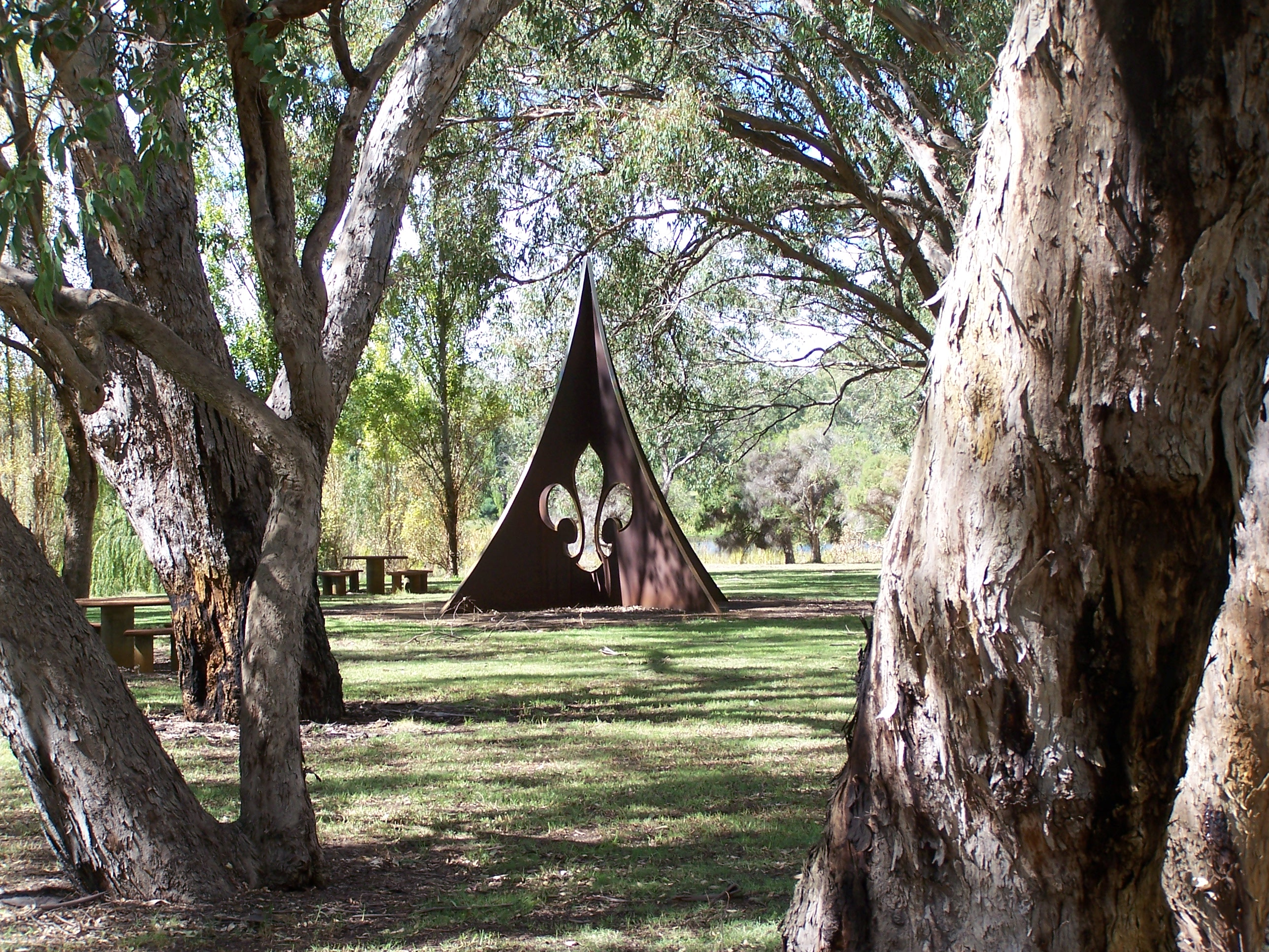 Commemorative Sculpture in Perry Lakes to honour 75 years of Scouting in 1982, Also a plaque to acknowledge the 1979 jamboree where over 12,000 scouts form around the world camped.